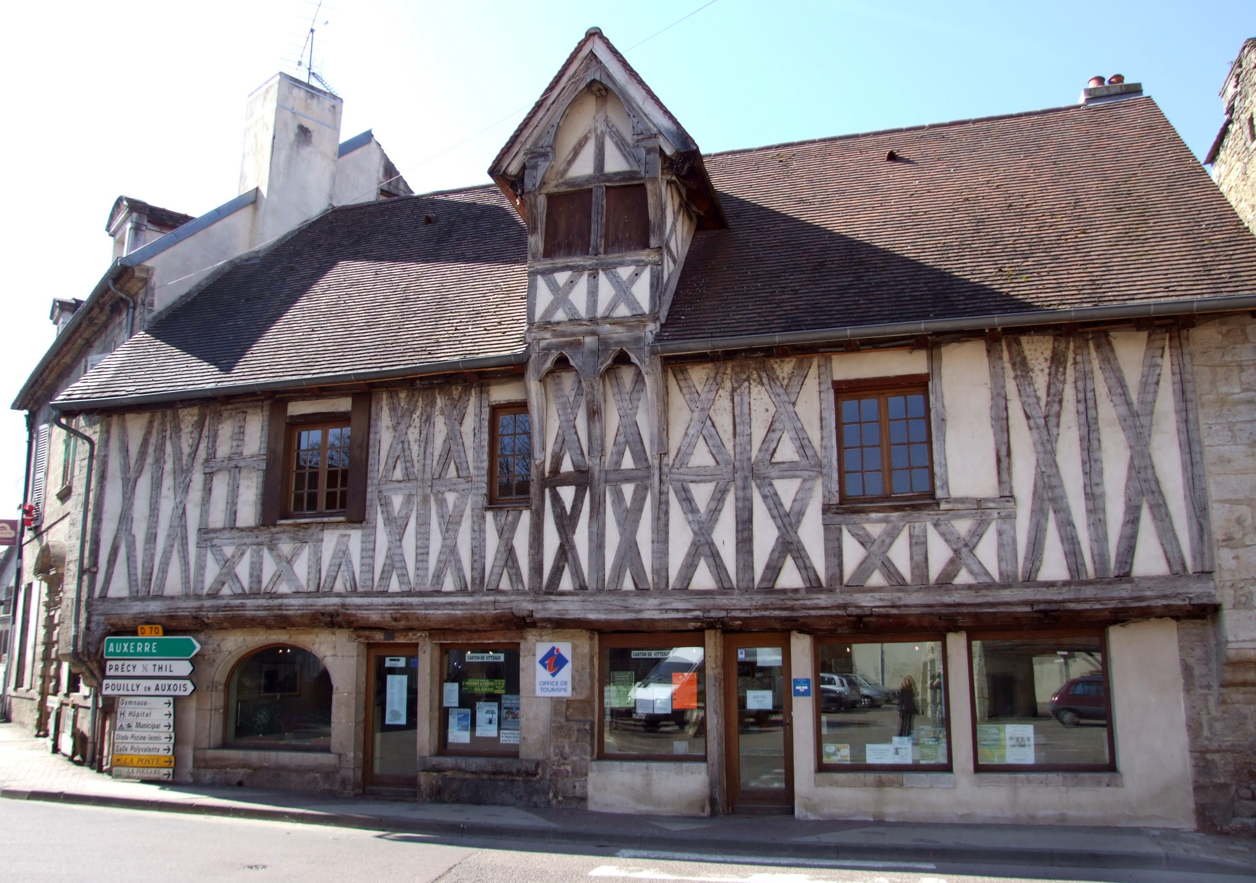 Tourist information center, Vitteaux, Burgundy, FRANCE